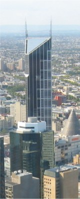 Melbourne Central from Rialto Observation Deck Taken By Andrew Amos (Skyscraper297) 20 March 2005